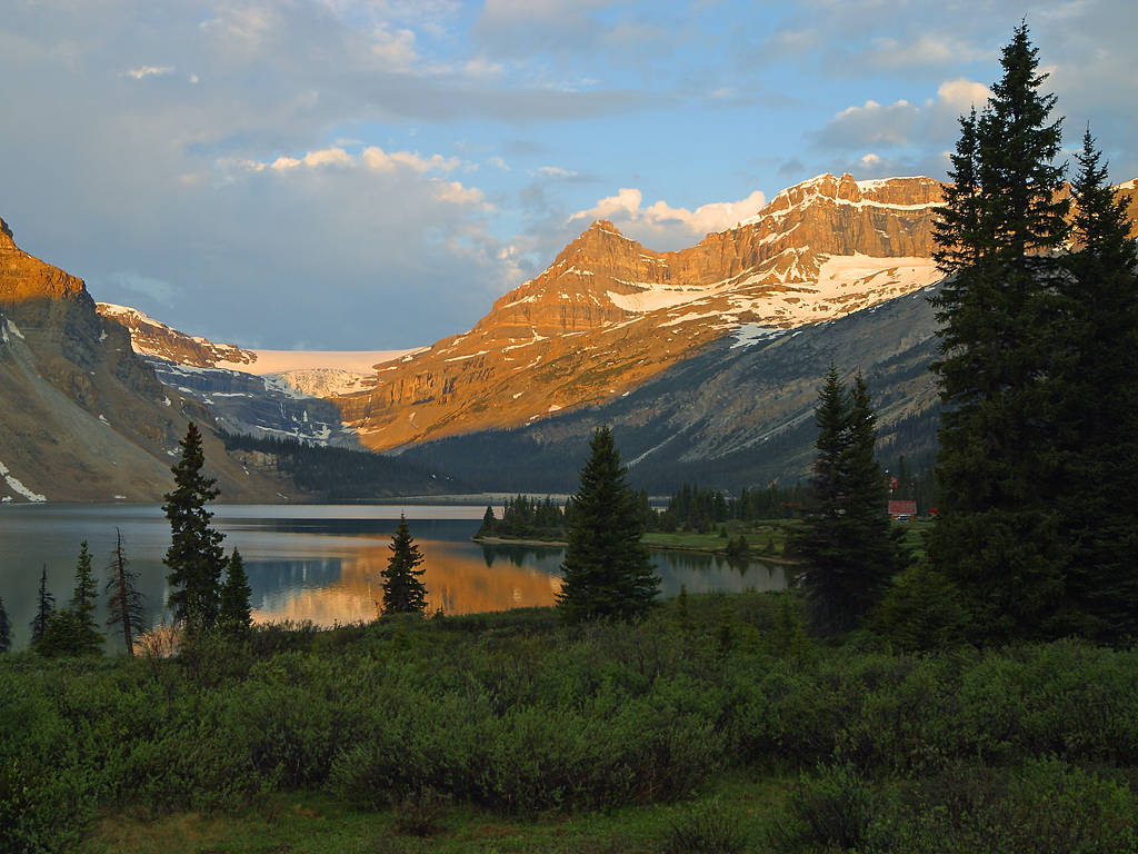 Bow Lanke, Banff National Park, Canada